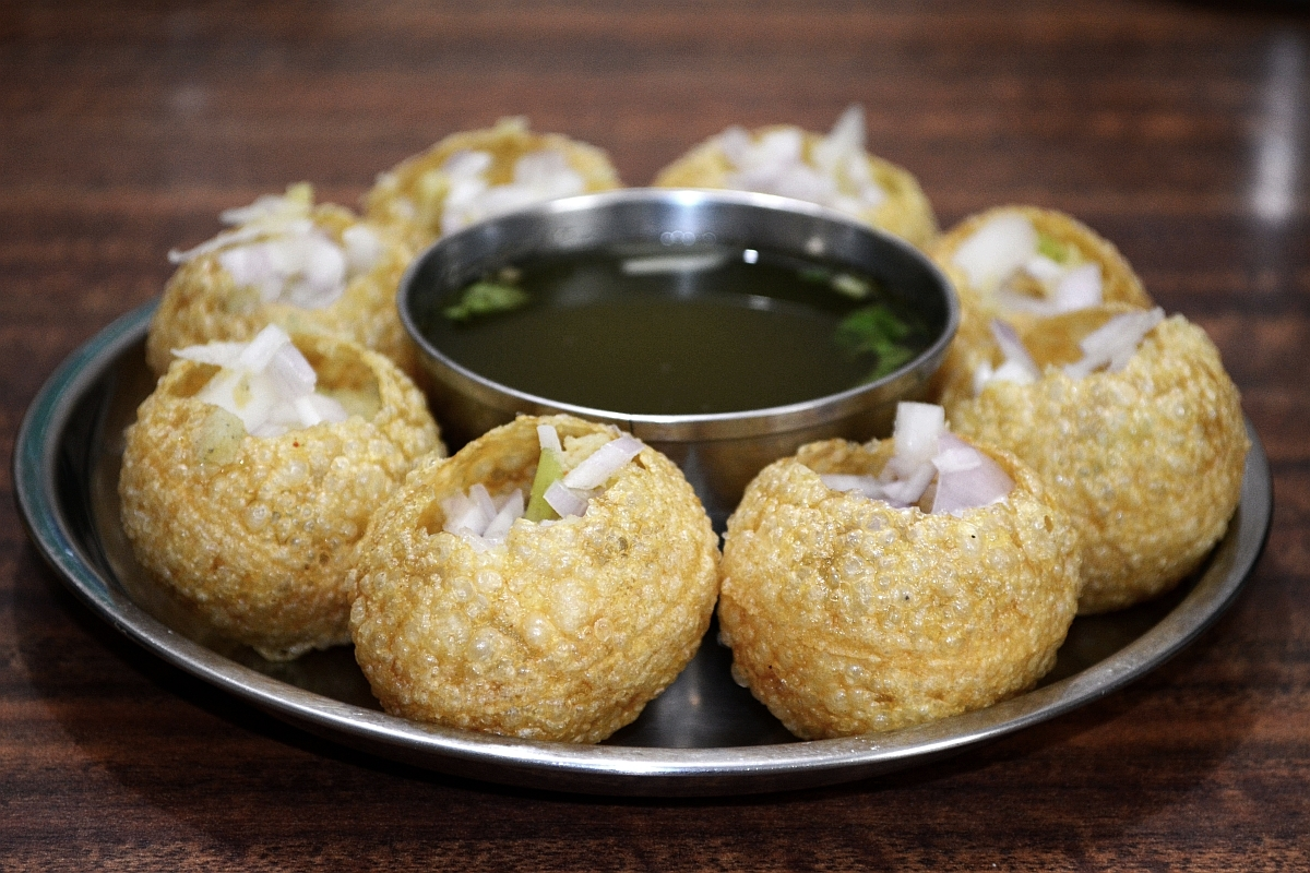 Whatever be the name, this North Indian chat item gets tongues drooling.